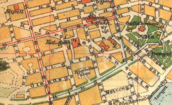 Map of downtown Stockholm in the 1910s